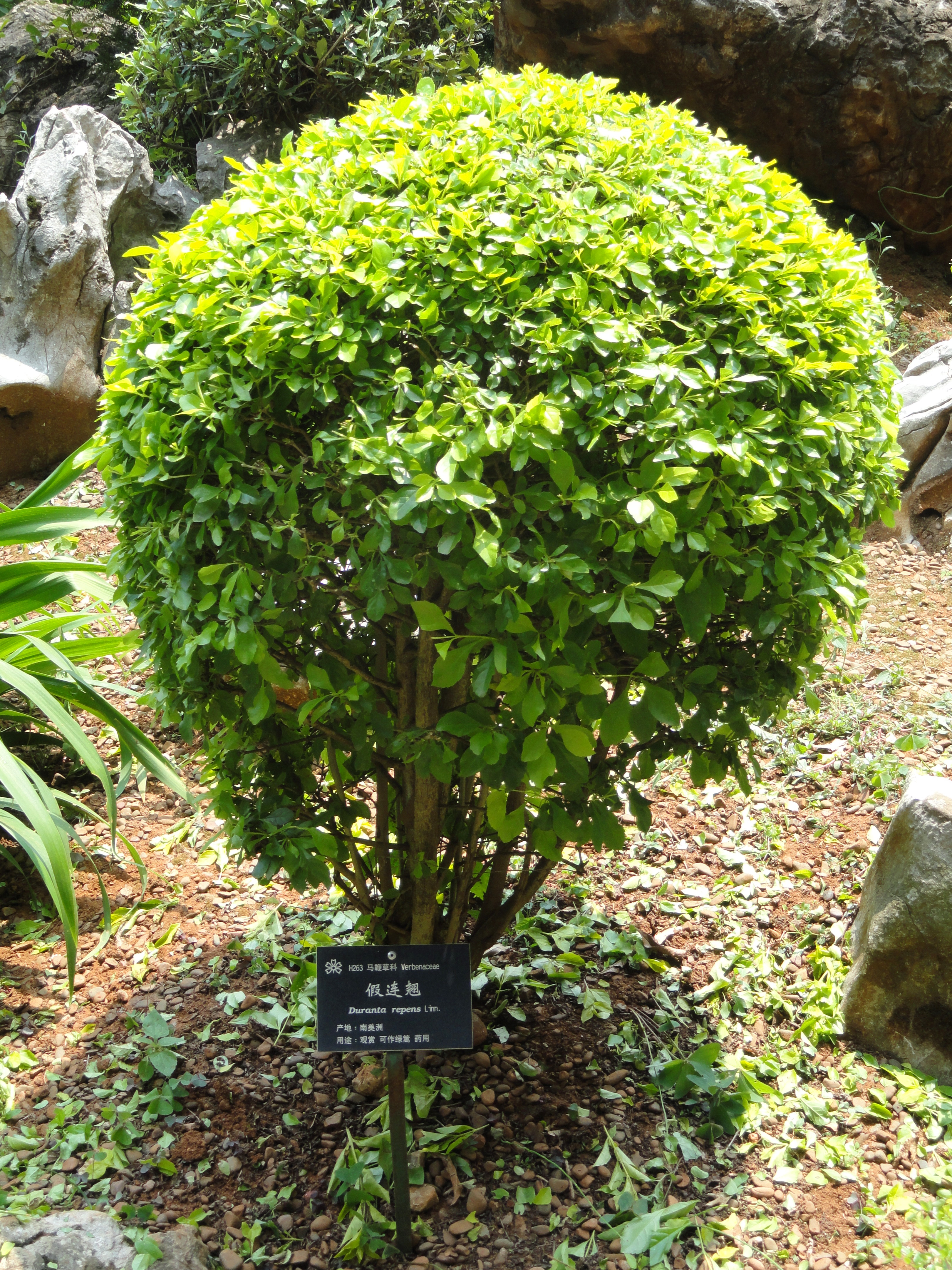 Plant specimen in the Kunming Botanical Garden, Kunming, Yunnan, China.